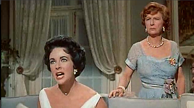 Screenshot of Elizabeth Taylor and Judith Anderson from the trailer for the film Cat on a Hot Tin Roof (film)